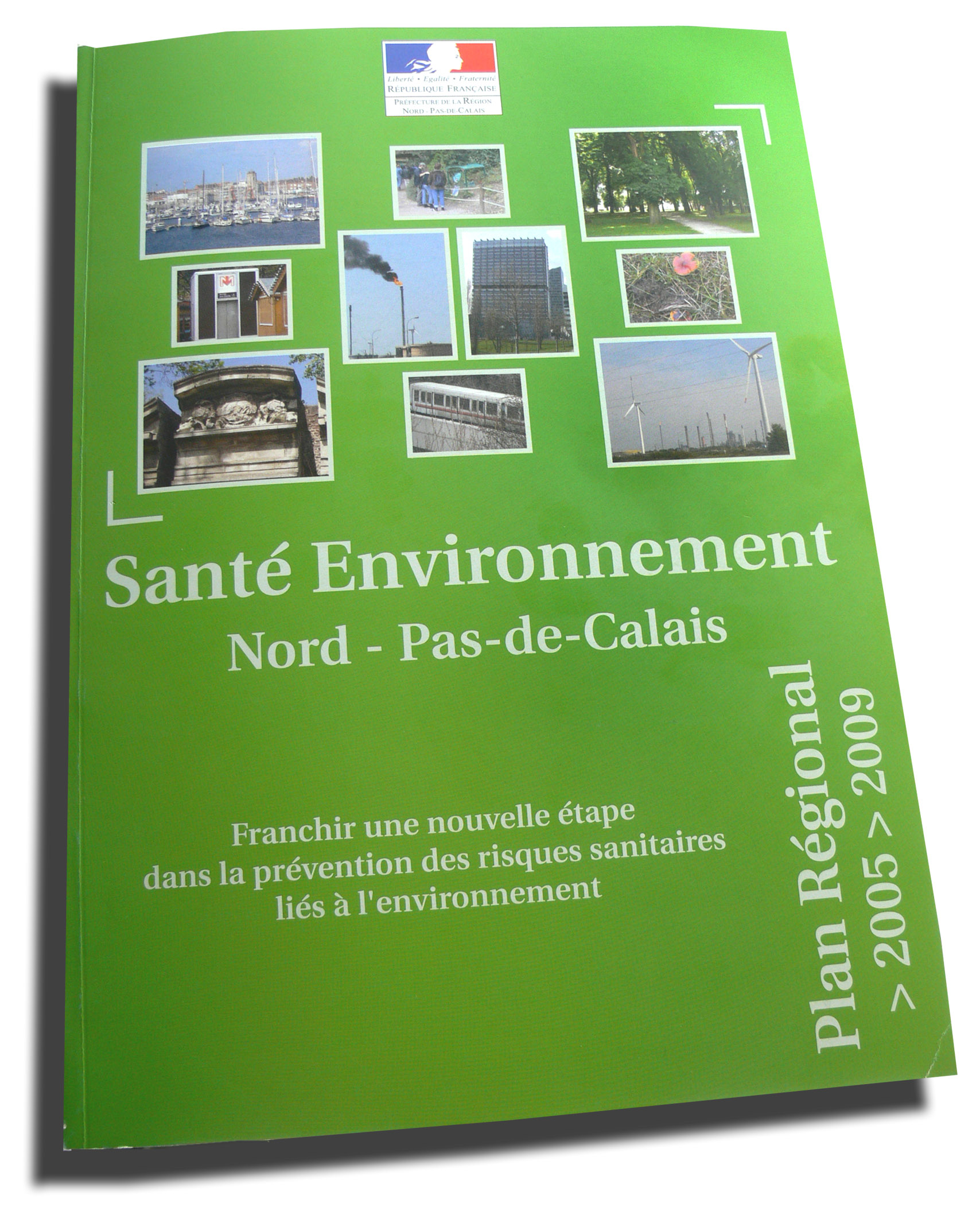 Paper presentation of "Health-Environment Regional Plan" (PRSE 1 ; declination of the national Plan PNSE1), developed by the state and the region (here Nord-Pas-de-Calais Council). In 2010, a second plan (PRSE 2) is in preparation.